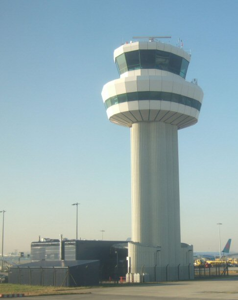 Air Traffic Control Tower